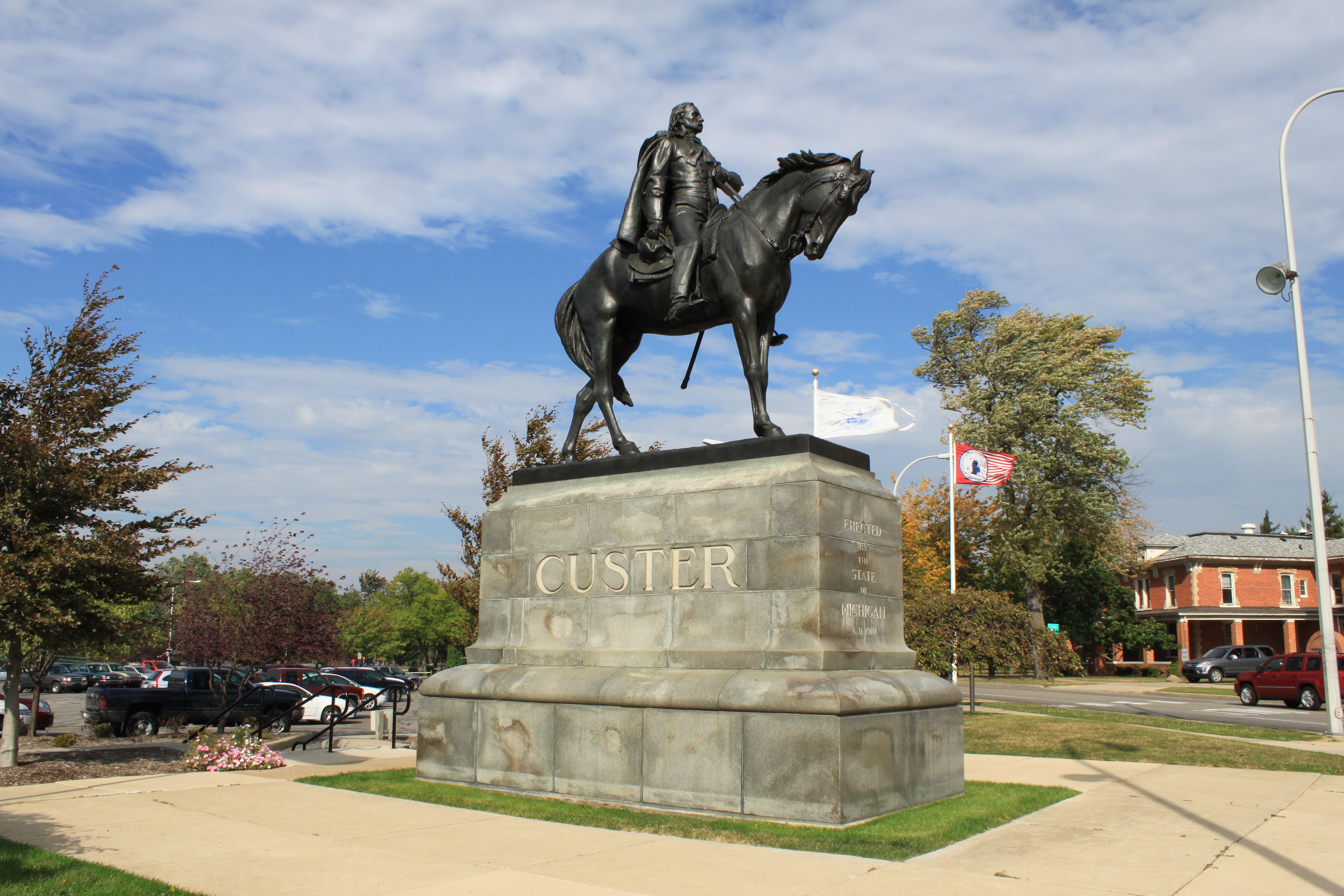 Statue of general George Armstrong Custer named "Sighting the Enemy", Elm & Monroe streets, Monroe Michigan. Sculptor-Edward C. Potter, 1910.